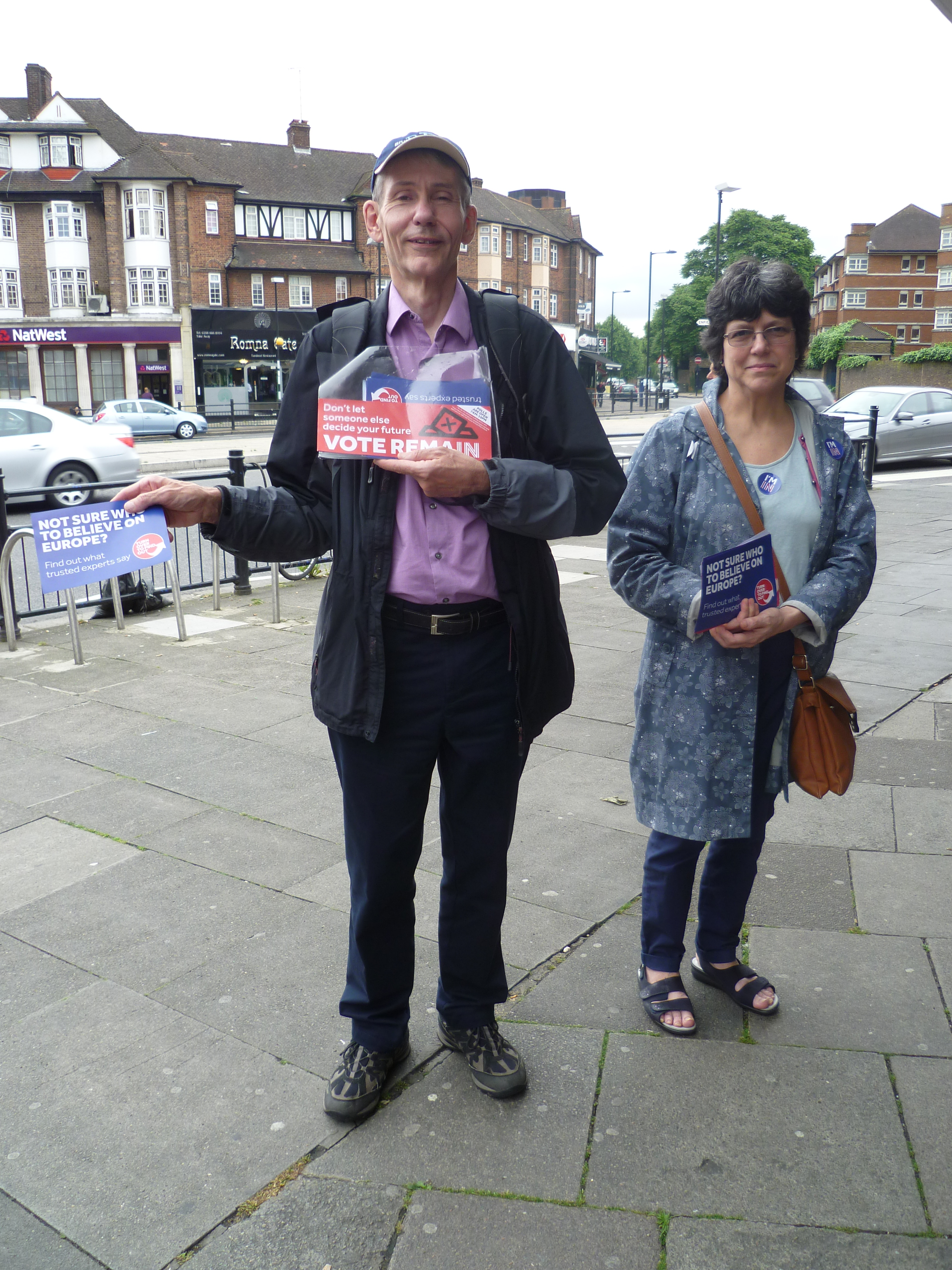 London